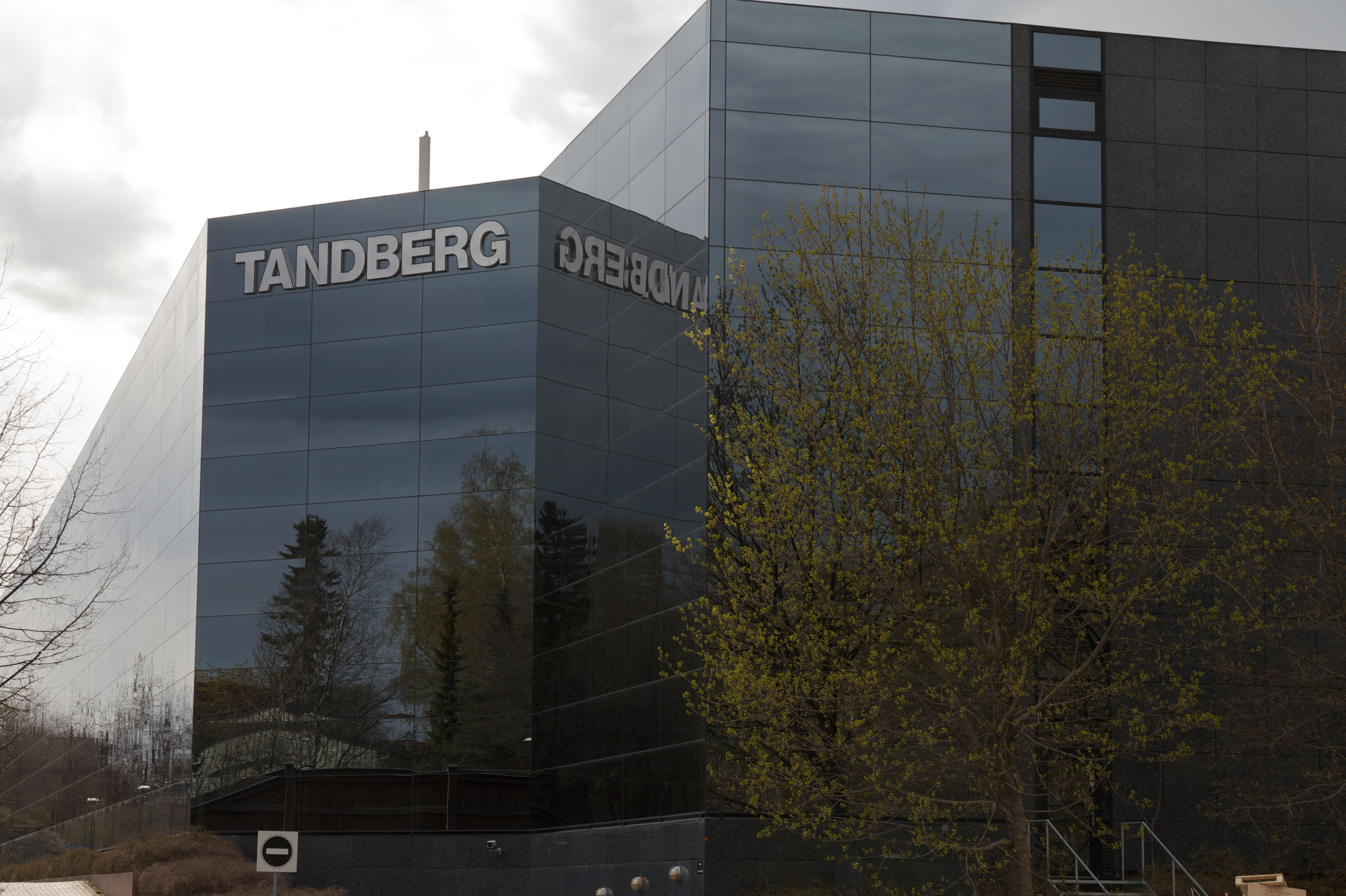 Tandberg HQ. Lysaker, Norway.